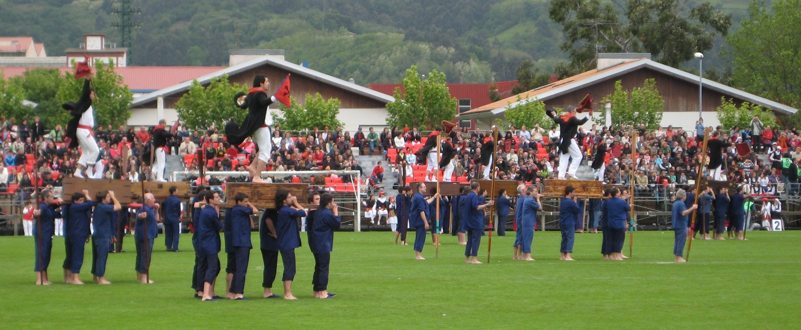 Nine of the dance crews from Biscay which did the kaxarranka dance simultaneously at the football field in Sondika during Dantzari Eguna (Dancer's Day).